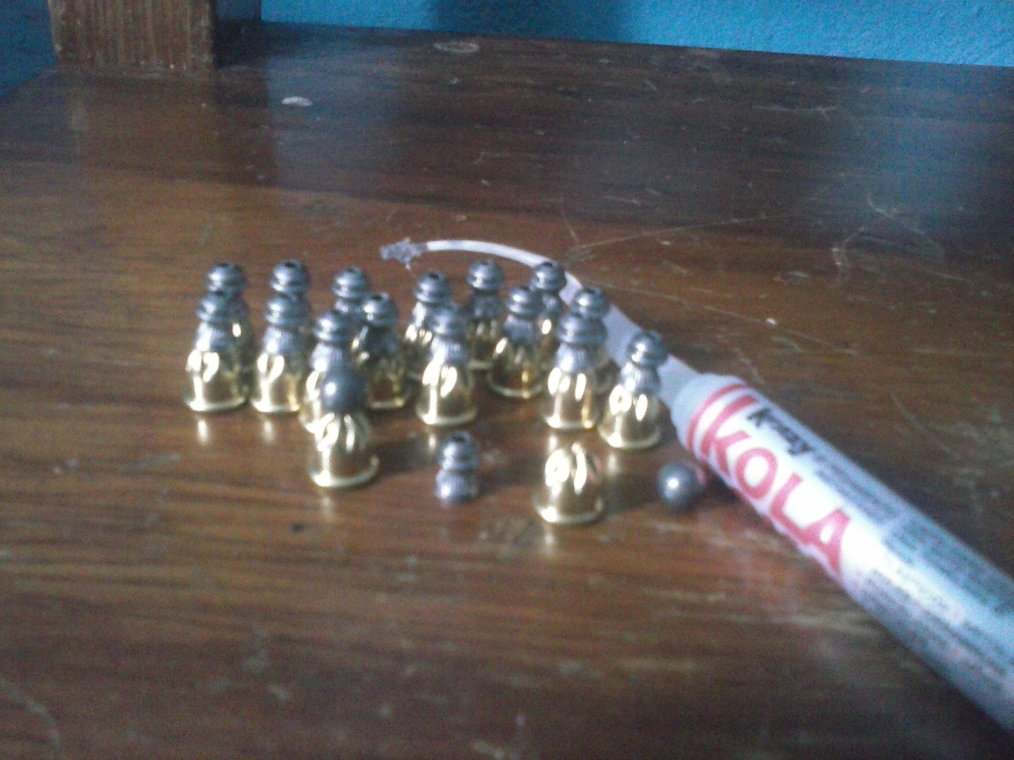 Aguila blank together with pellets Mendoza, note that there is also a round attached to a BB, which is included in the package Aguila brand.